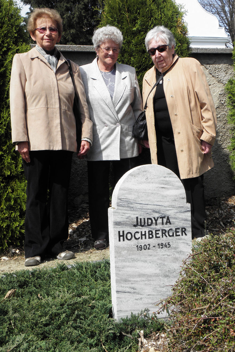 Dagmar Lieblová, Jaroslava Krejsová and Helga Hošková Weissová (Helga Weiss) at Volary Cemetery by the tomb of Judyta Hochberger, Czech Republic.